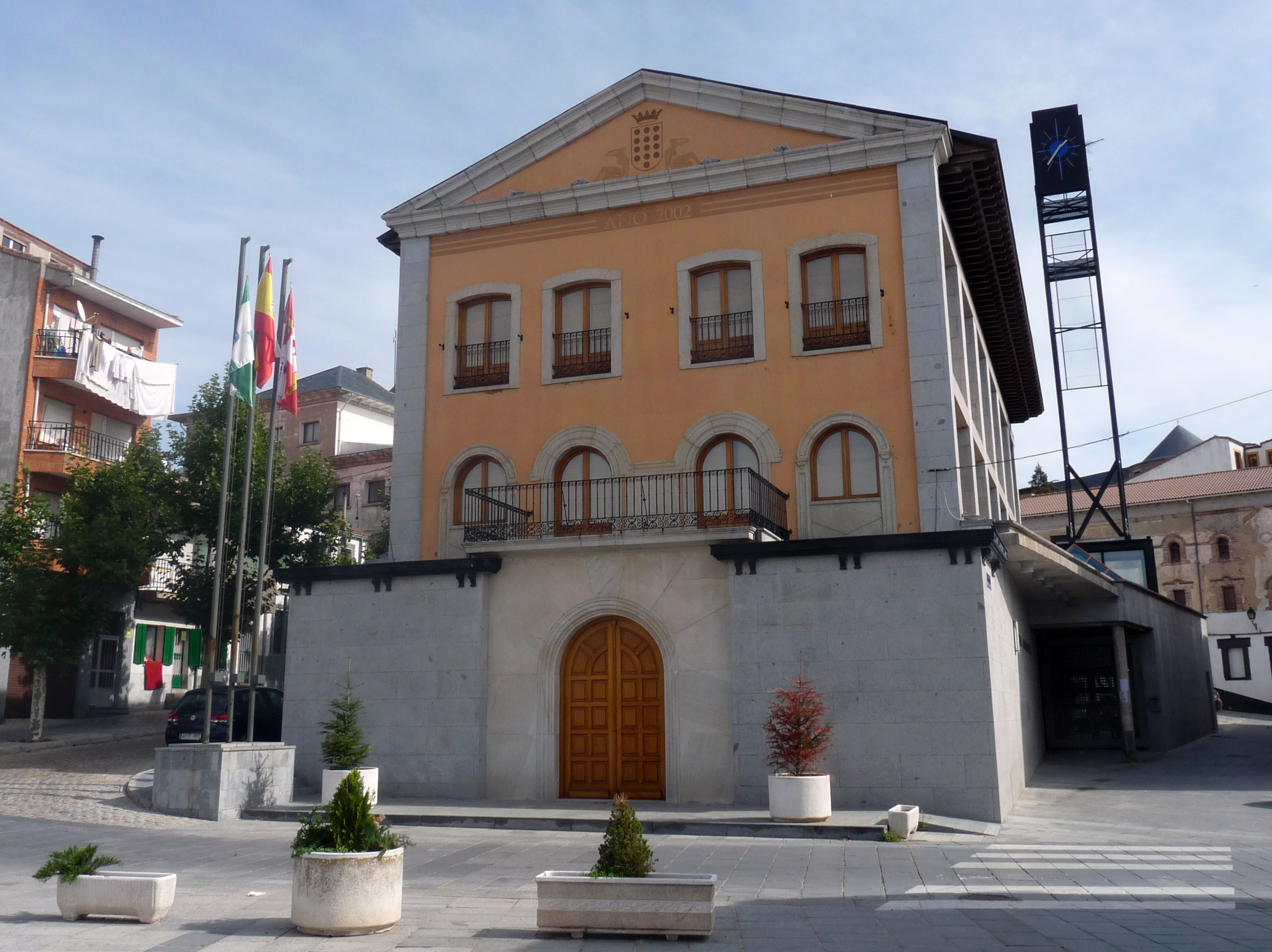 Town hall of Las Navas del Marqués, province of Ávila, Castile and León, Spain.